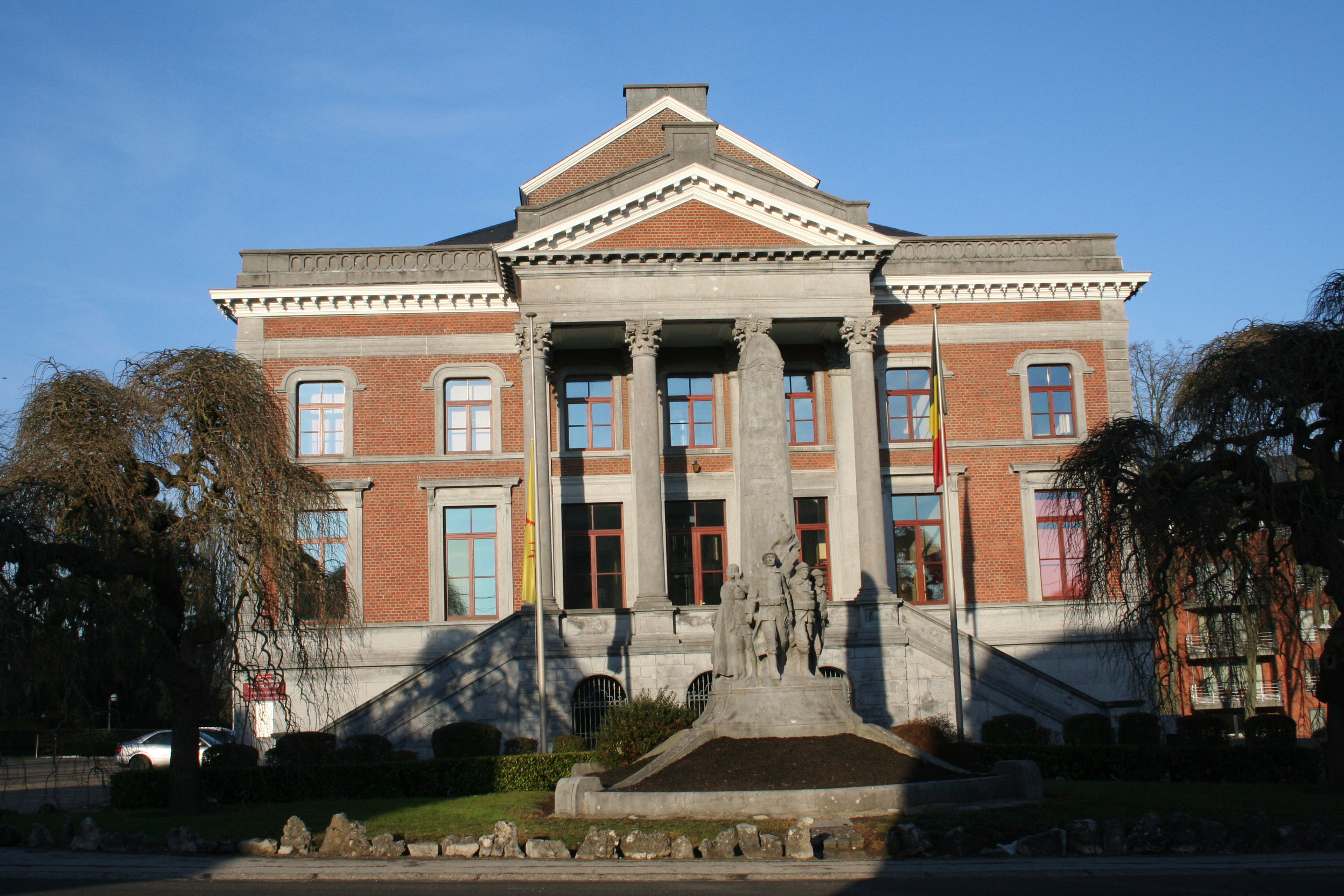 Marche-en-Famenne (Belgium), the law court.